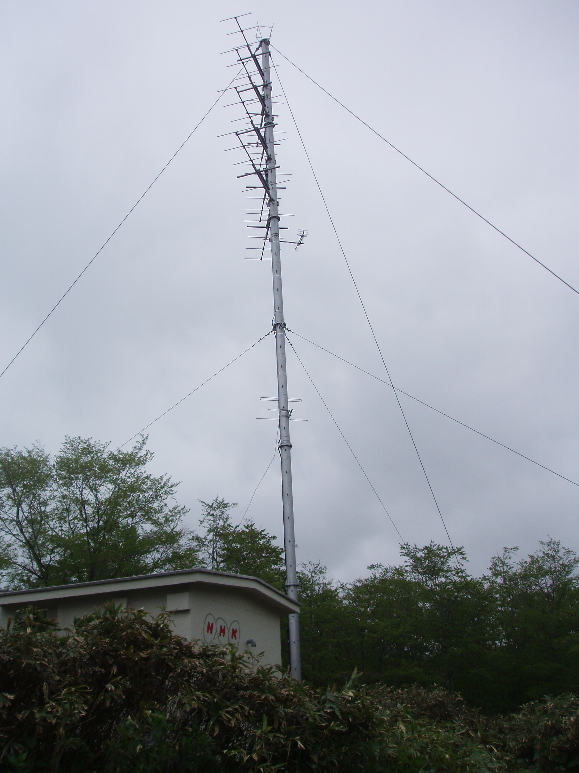 NHK transmitter at the Kuromatsunai Broadcasting Relay Station